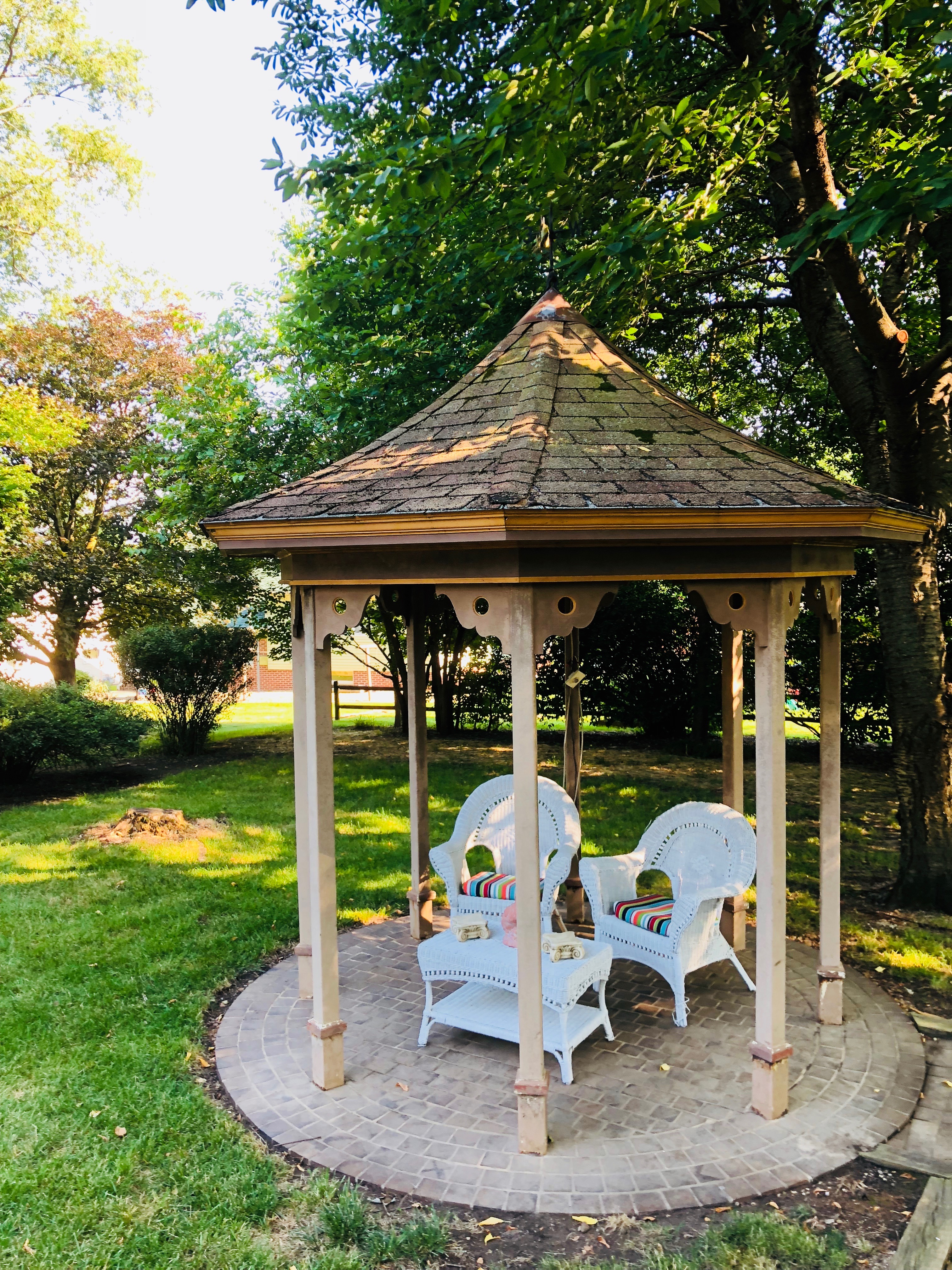 This photo was taken 17 June, 2018